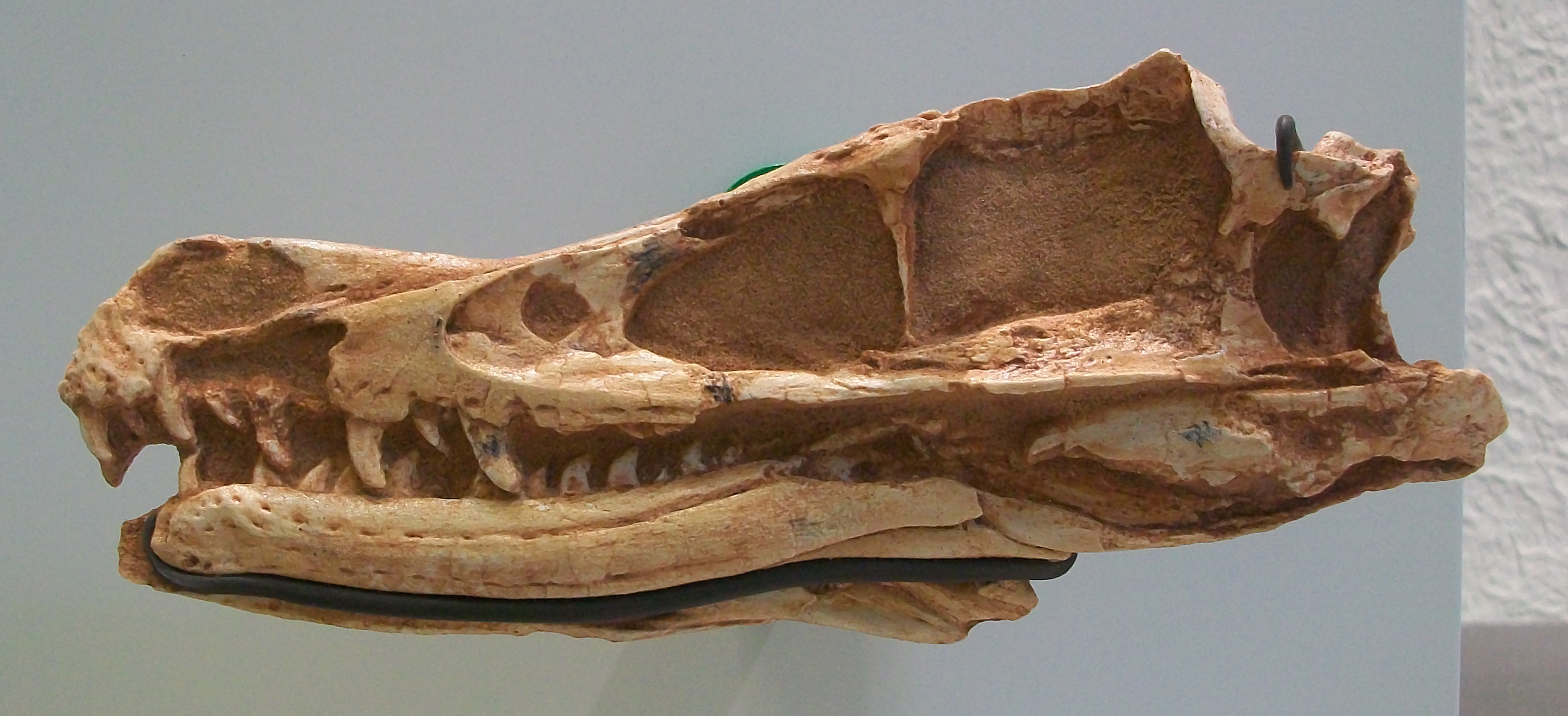 Skull of Velociraptor mongoliensis (AMNH 6515) in the American Museum of Natural History.